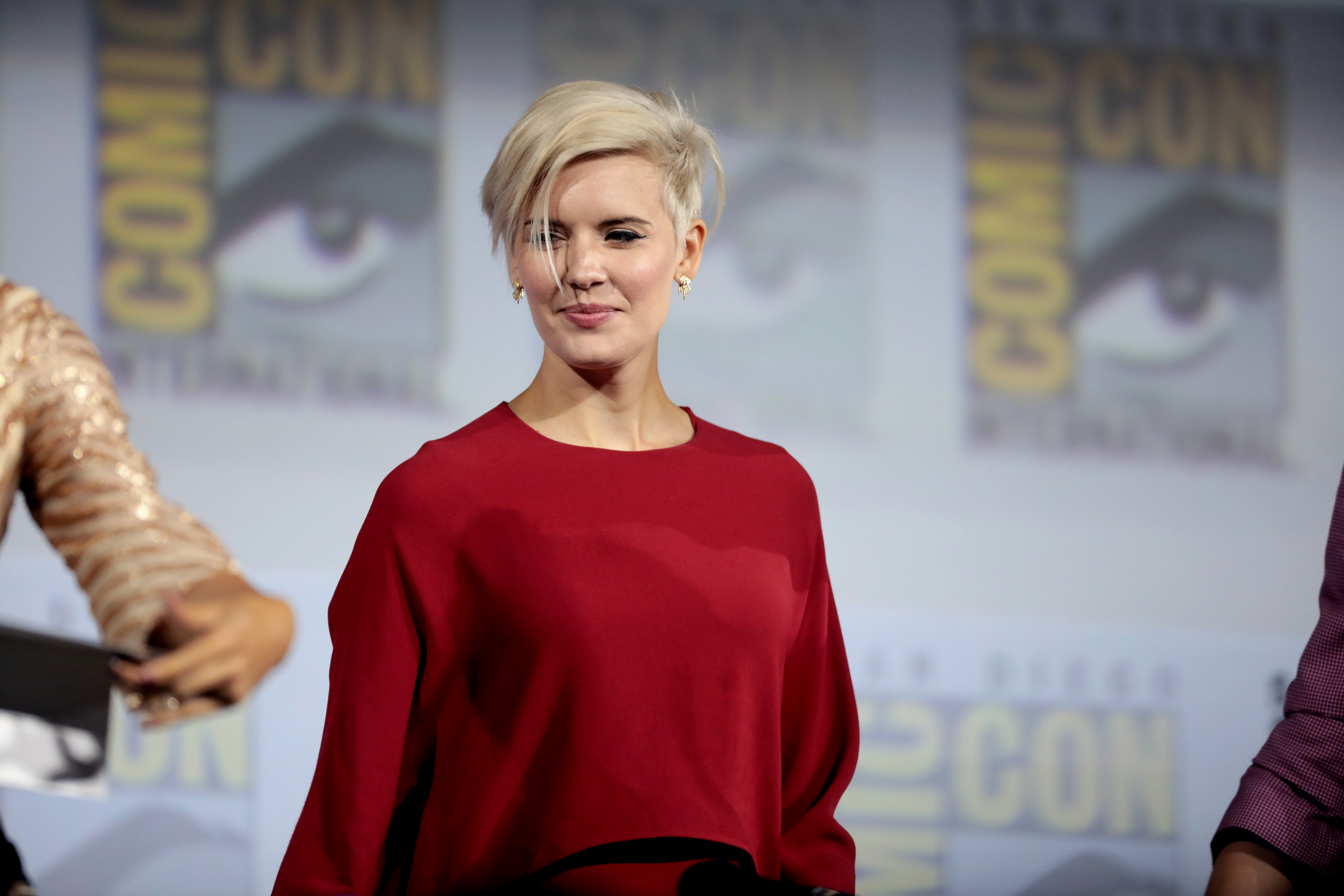 Maggie Grace speaking at the 2019 San Diego Comic Con International, for "Fear the Walking Dead", at the San Diego Convention Center in San Diego, California.